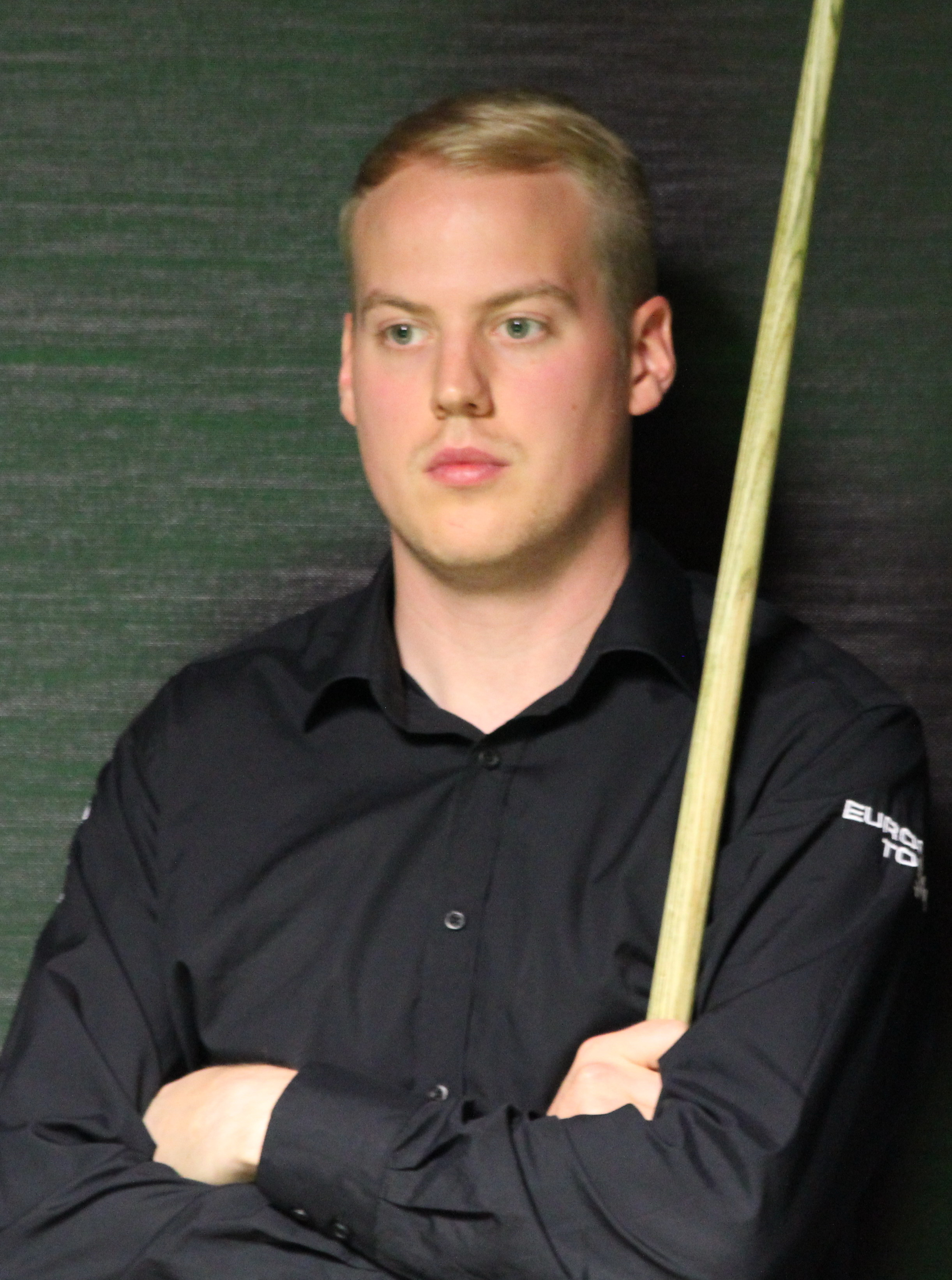 Allan Taylor beim Paul Hunter Classic 2014